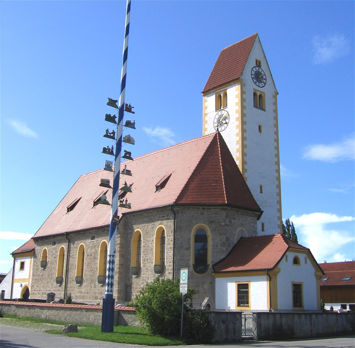 Ellmosen, view of St Margaret Subsidiary Church from south-east.